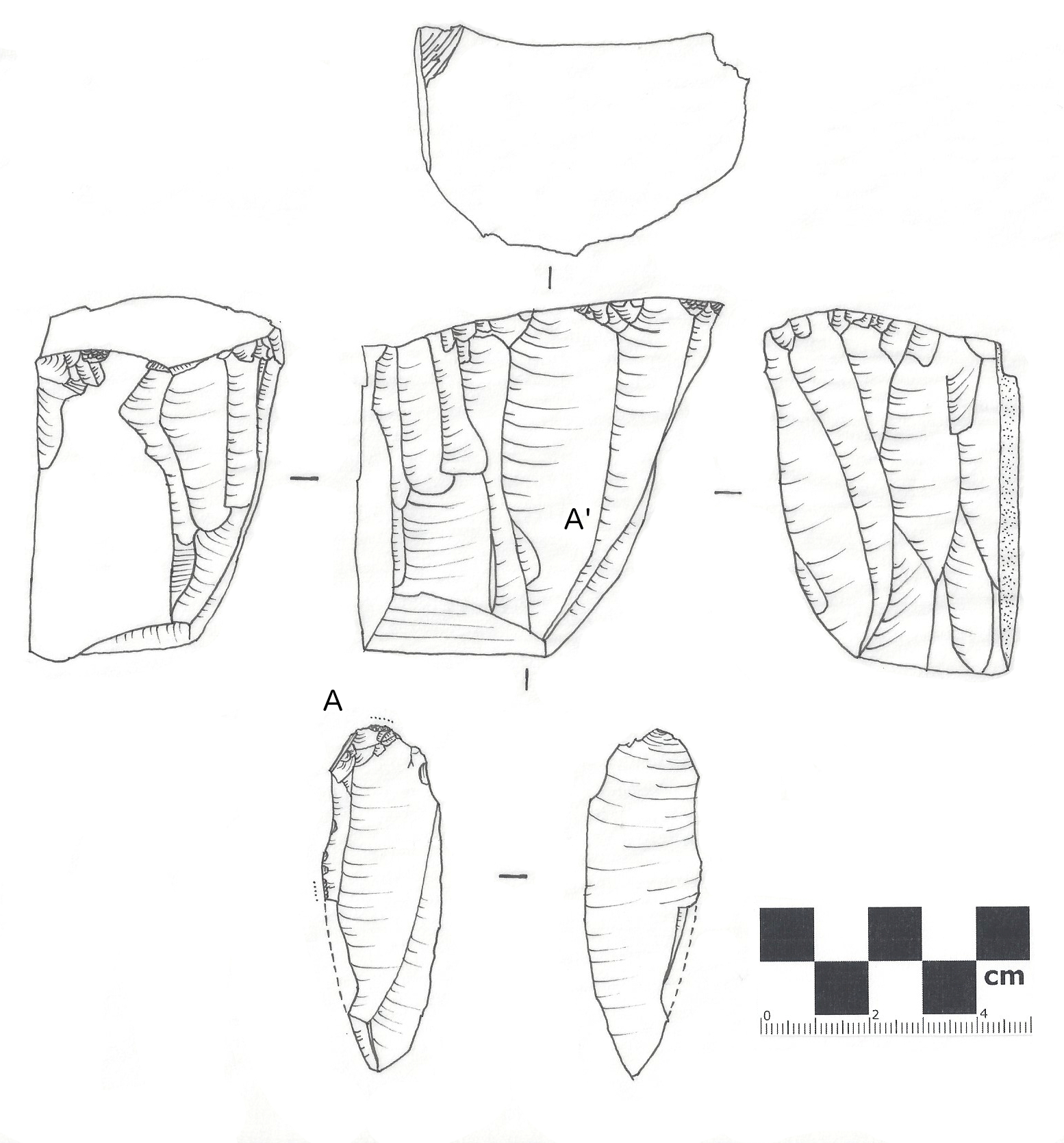 This illustration is the lithic blade and its core that made with prismatic reduction technology. This lithic technology appeared in upper Paleolithic period and replaced the Levallois technology. The lithic marks with A can fit to where A' is. Artifacts provided by Department of Anthropology, University of Washington.